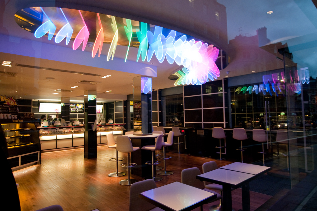 Itsu Restaurant at 30-40 Cannon Street, London. Photograph shows the "Butterfly in Flight" lighting installation by designers Cinimod Studio.